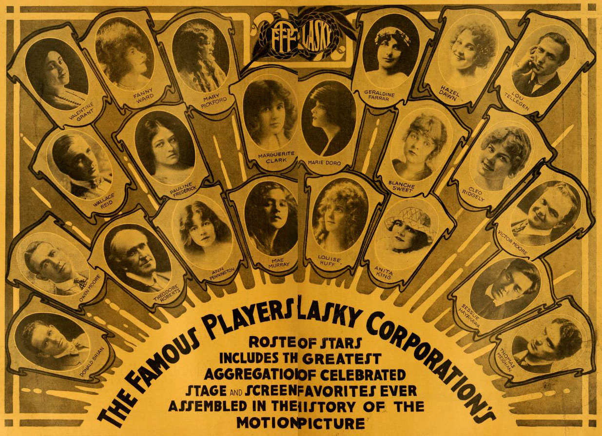 Advertisement in The Moving Picture World